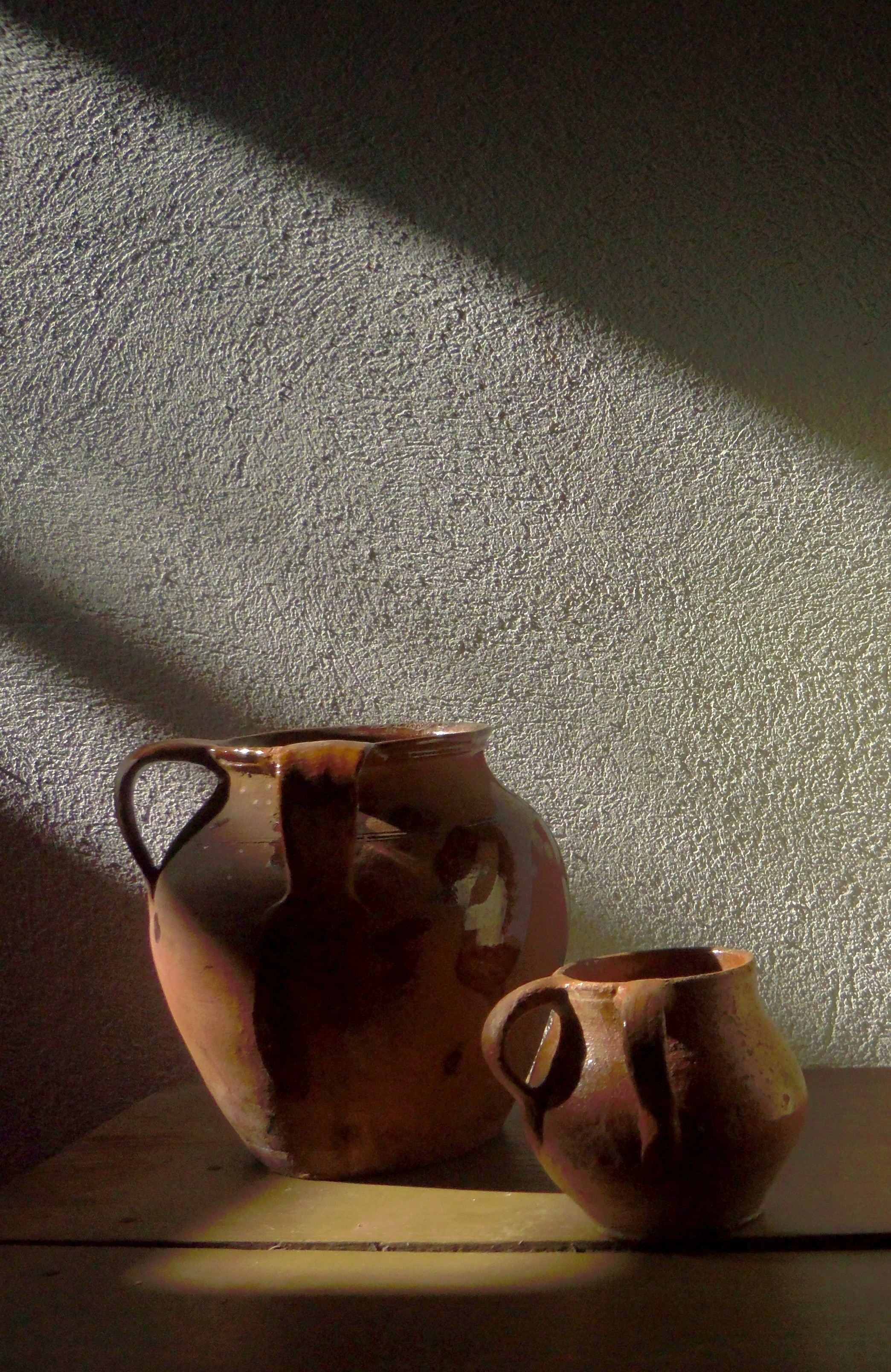 Container used for cooking slowly